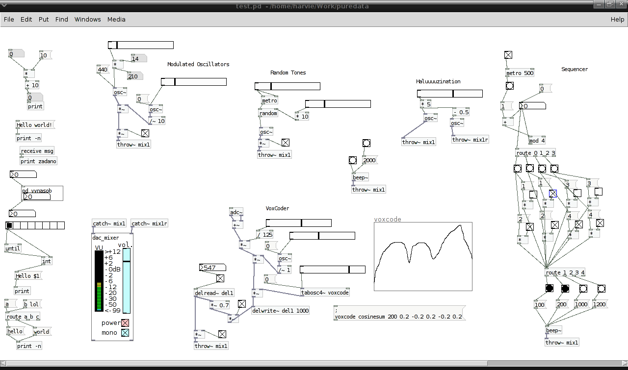 Example patch created in Pure Data. You can see some sound synthetizers, voxcoder and simple sequencer connected to simple volume control and vu-meter.